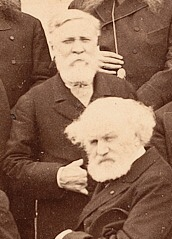 Frederick John Owen Evans and Jules Janssen. The delegates to the International Meridian Conference in Washington in 1884